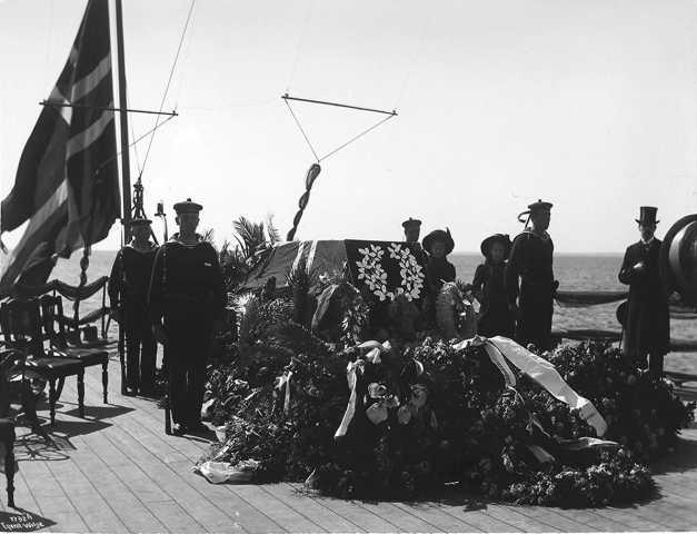 The coffin of Norwegian writer Bjørnstjerne Bjørnson on the deck of the coastal defence ship Norge